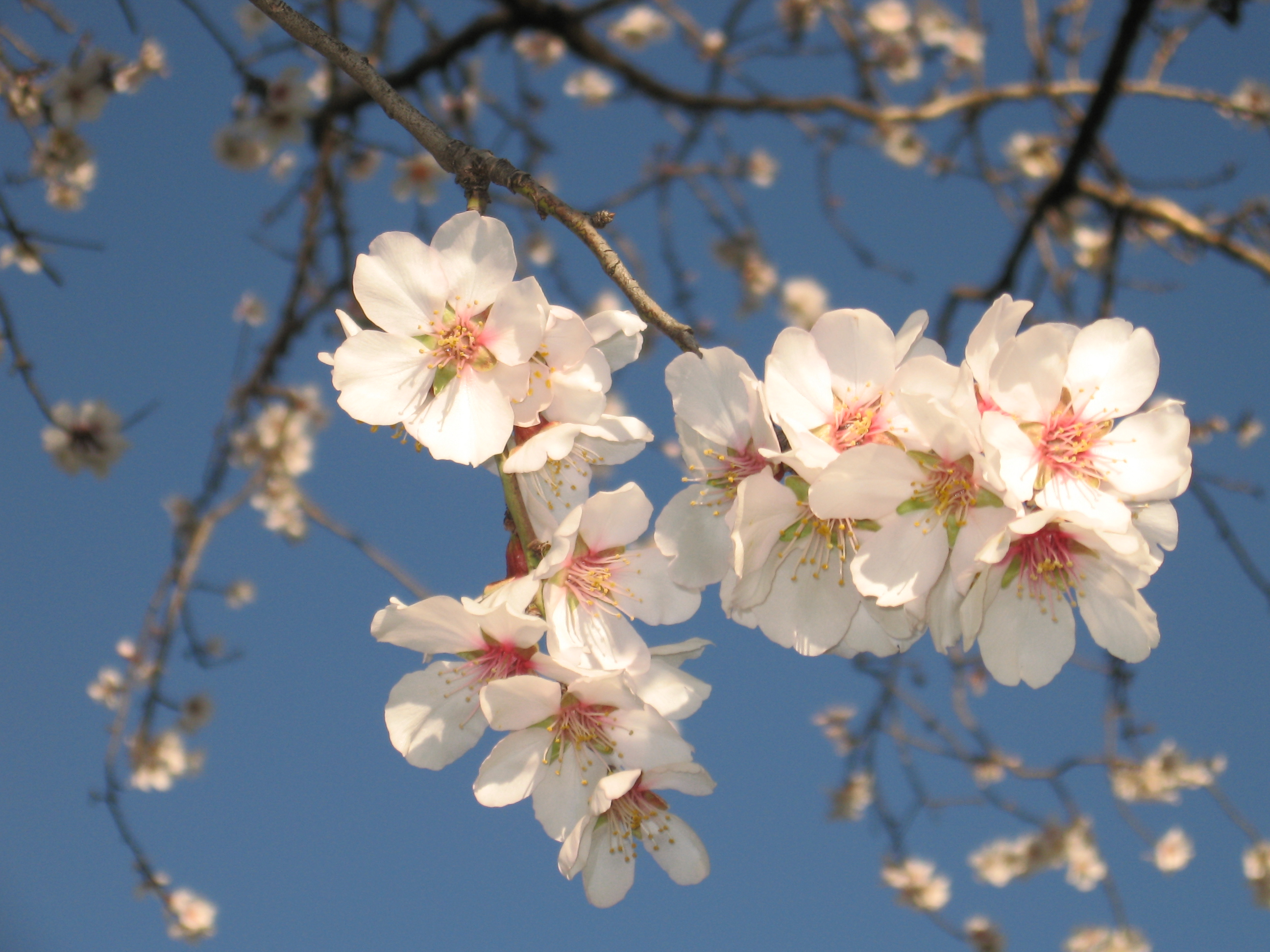 Almond tree branches in blossom